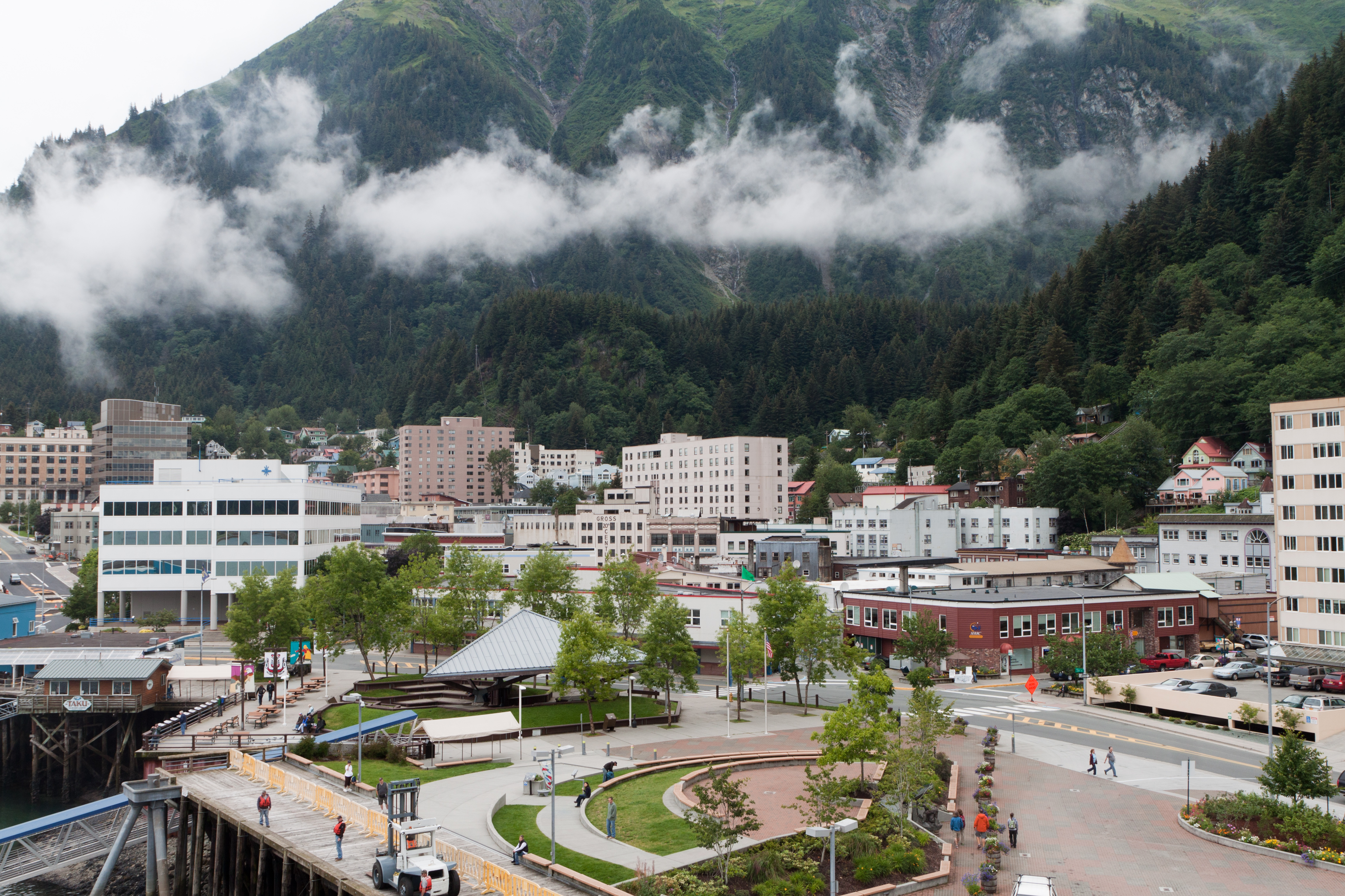 Downtown Juneau with Mount Juneau rising in the background. Probably from a cruise ship deck just before docking